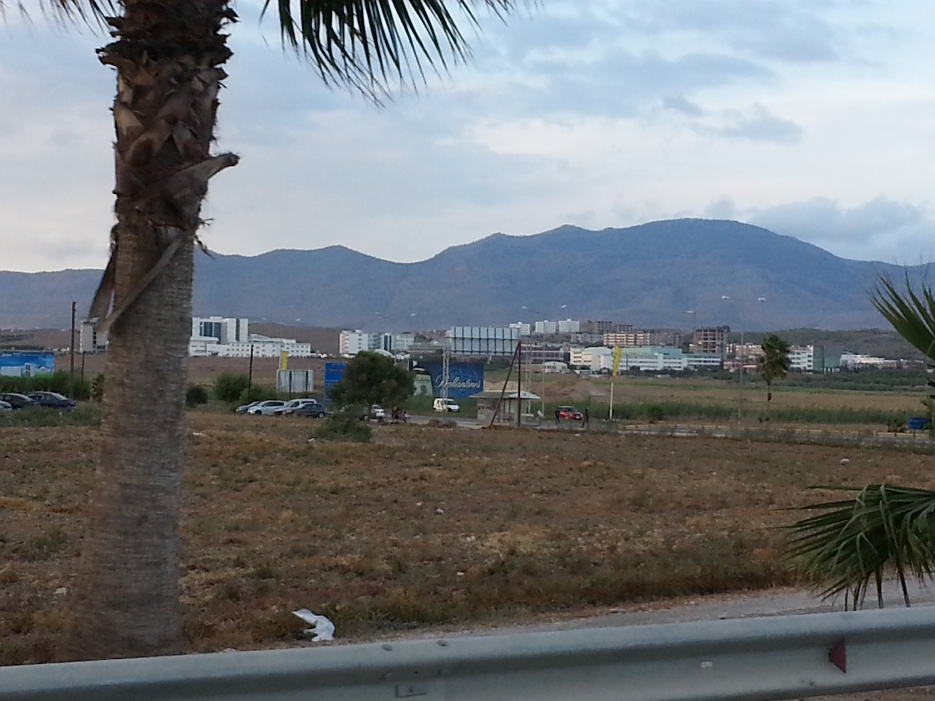 Near East University campus, as seen from NicosiaTürkçe: Yakın Doğu Üniversitesi kampüsünün Lefkoşa'dan görünümü